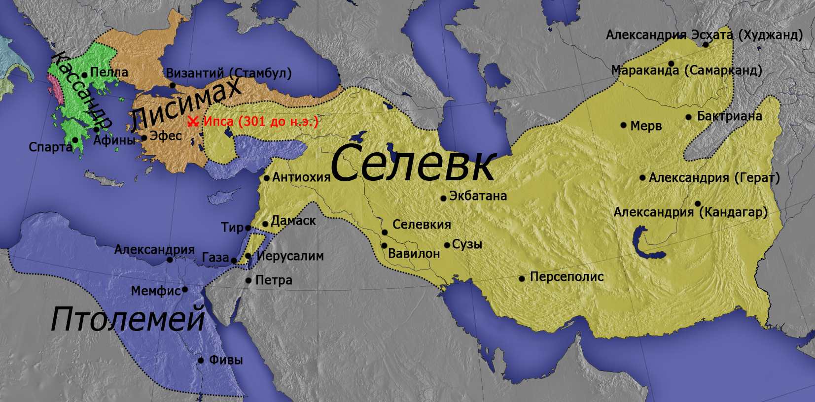 Division of Alexander the Great's empire after 301 BC, in Russian